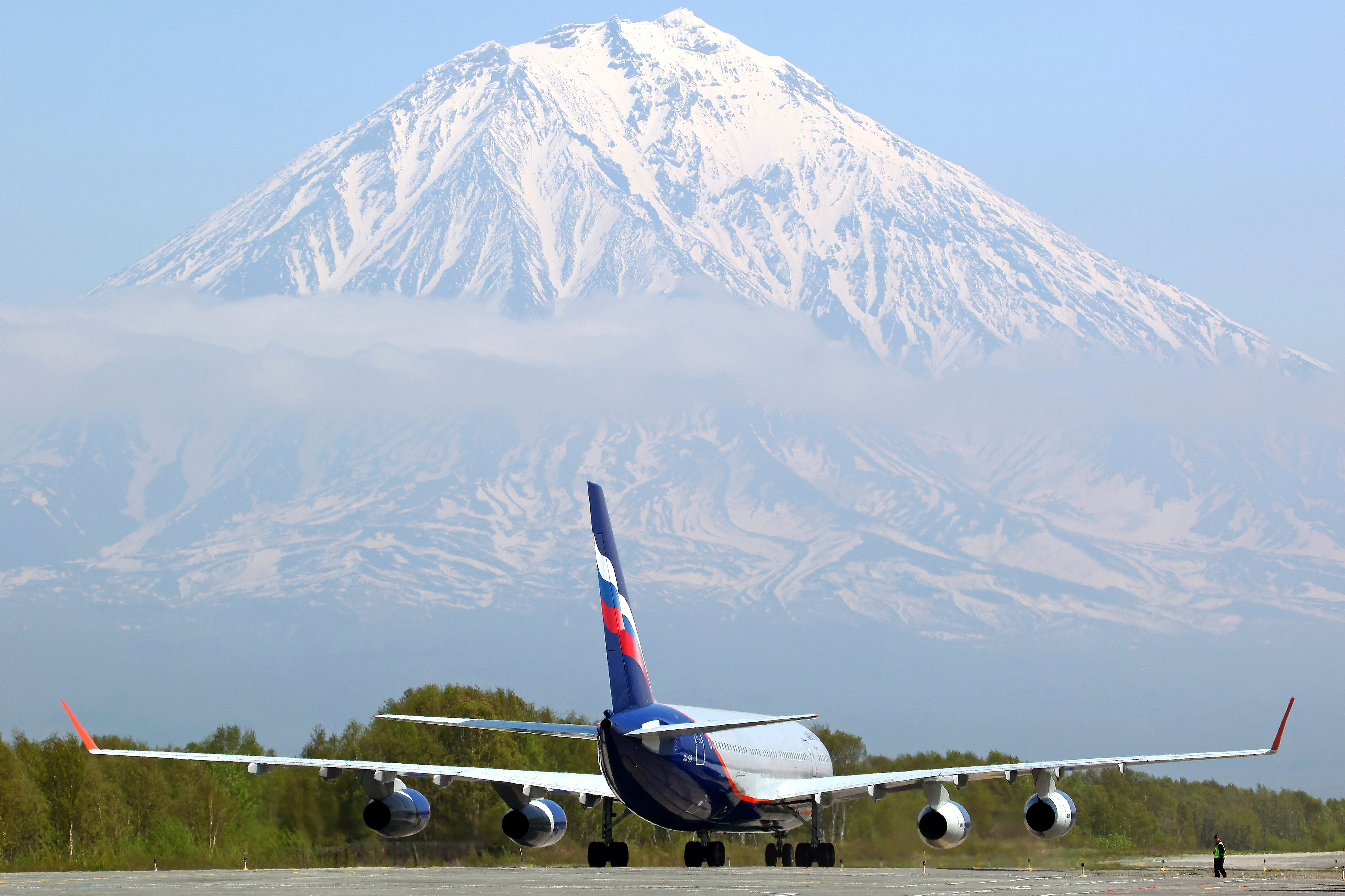 An Ilyushin Il-96-300 of Aeroflot at Petropavlovsk-Kamchatskiy Yelizovo Airport with Koryaksky volcano in the background